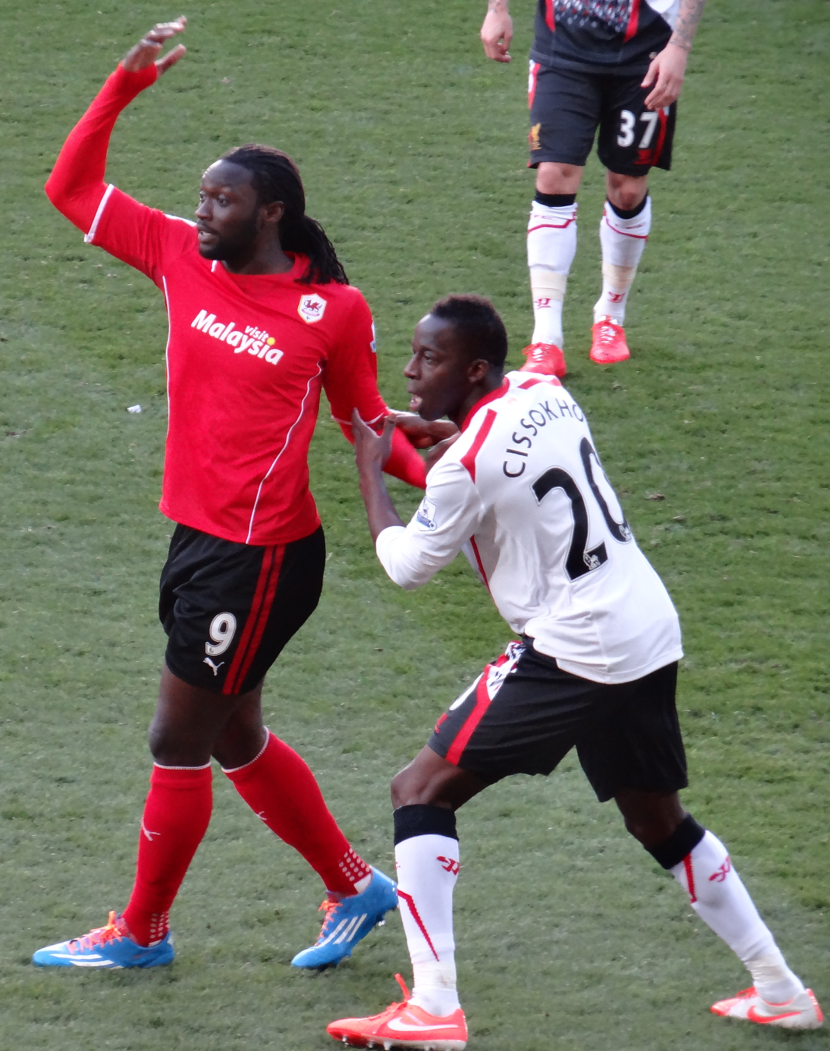 Trinidadian football player of Cardiff City Kenwyne Jones and French player of Liverpool Aly Cissokho